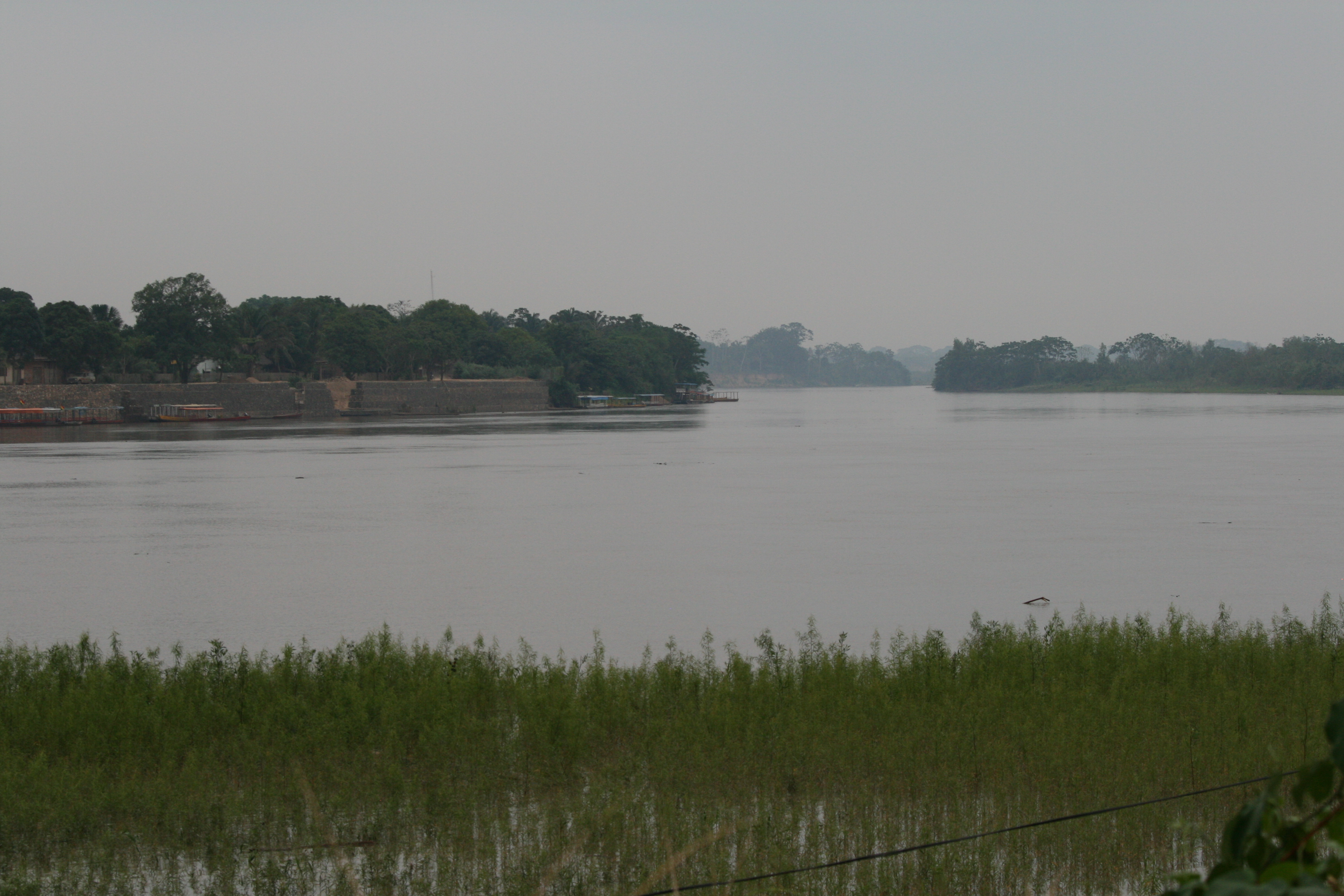 Beni River, Rurrenabaque, Bolivia. Photographed on 26 November 2008.